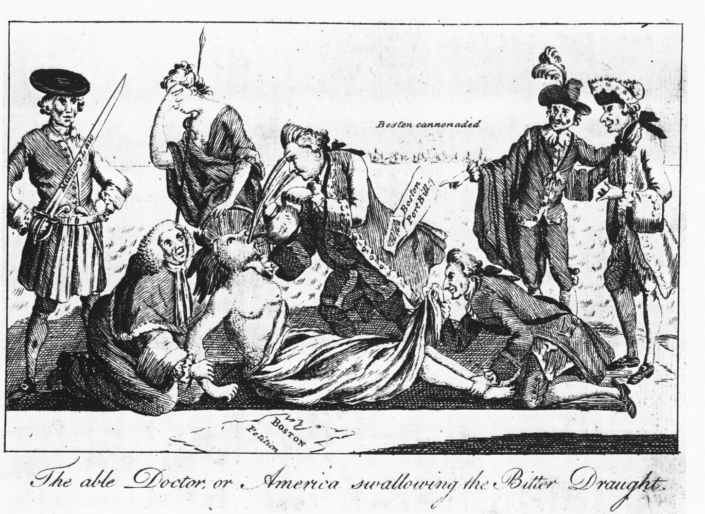 Full Caption: ”The able Doctor, or America Swallowing the Bitter Draught.” Etching. From the London Magazine, May 1, 1774. British Cartoon Collection. Prints and Photographs Division. LC-USZC4-5289. Prime Minister Lord North, author of the Boston Port Bill, forces the ”Intolerable Acts,” or tea, down the throat of America, a vulnerable Indian woman whose arms are restrained by Lord Chief Justice Mansfield, while Lord Sandwich, a notorious womanizer, pins down her feet and peers up her skirt. Behind them, Mother Britannia weeps helplessly. This British cartoon was quickly copied and distributed by Paul Revere